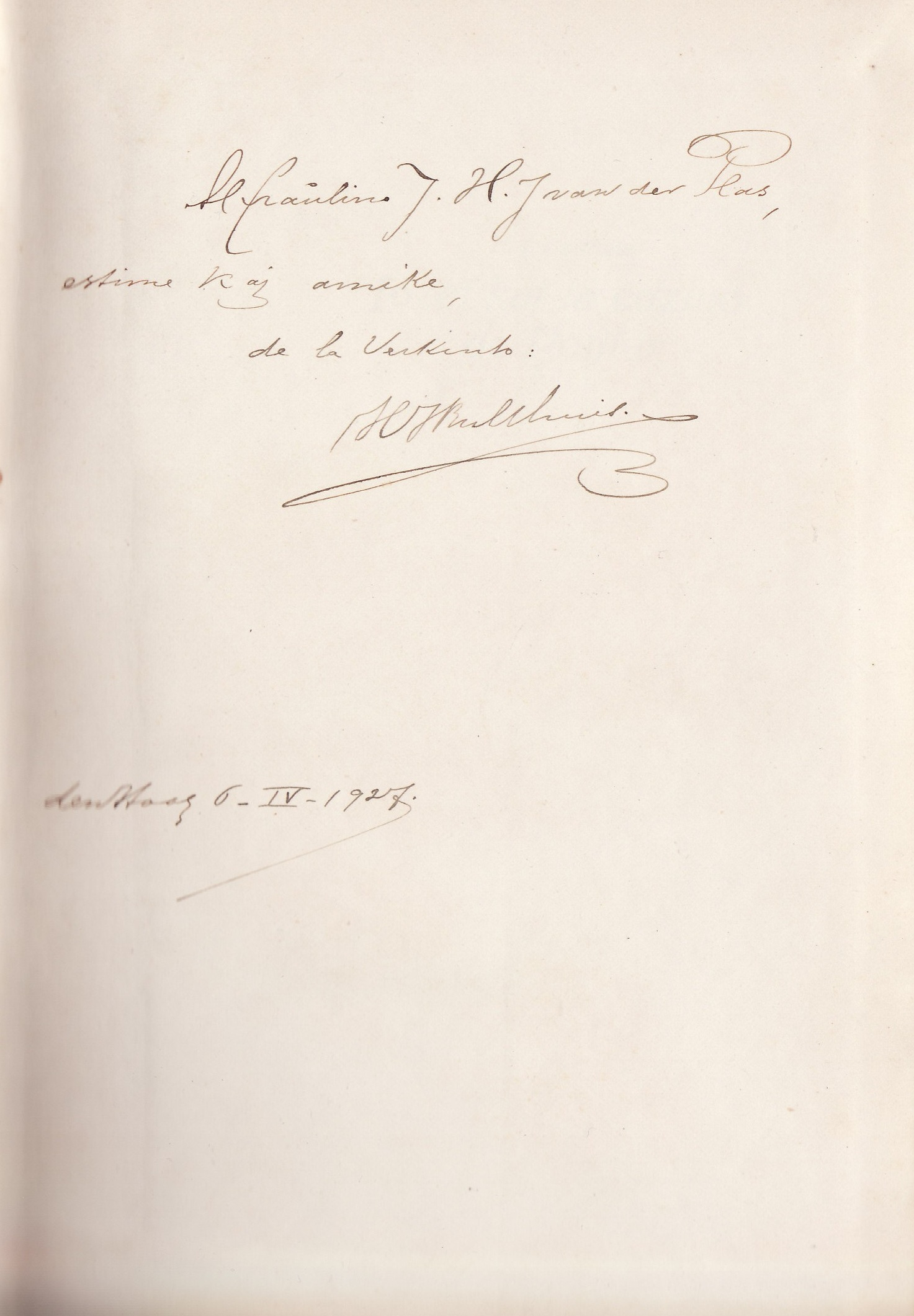 Subscription of Bulthuis